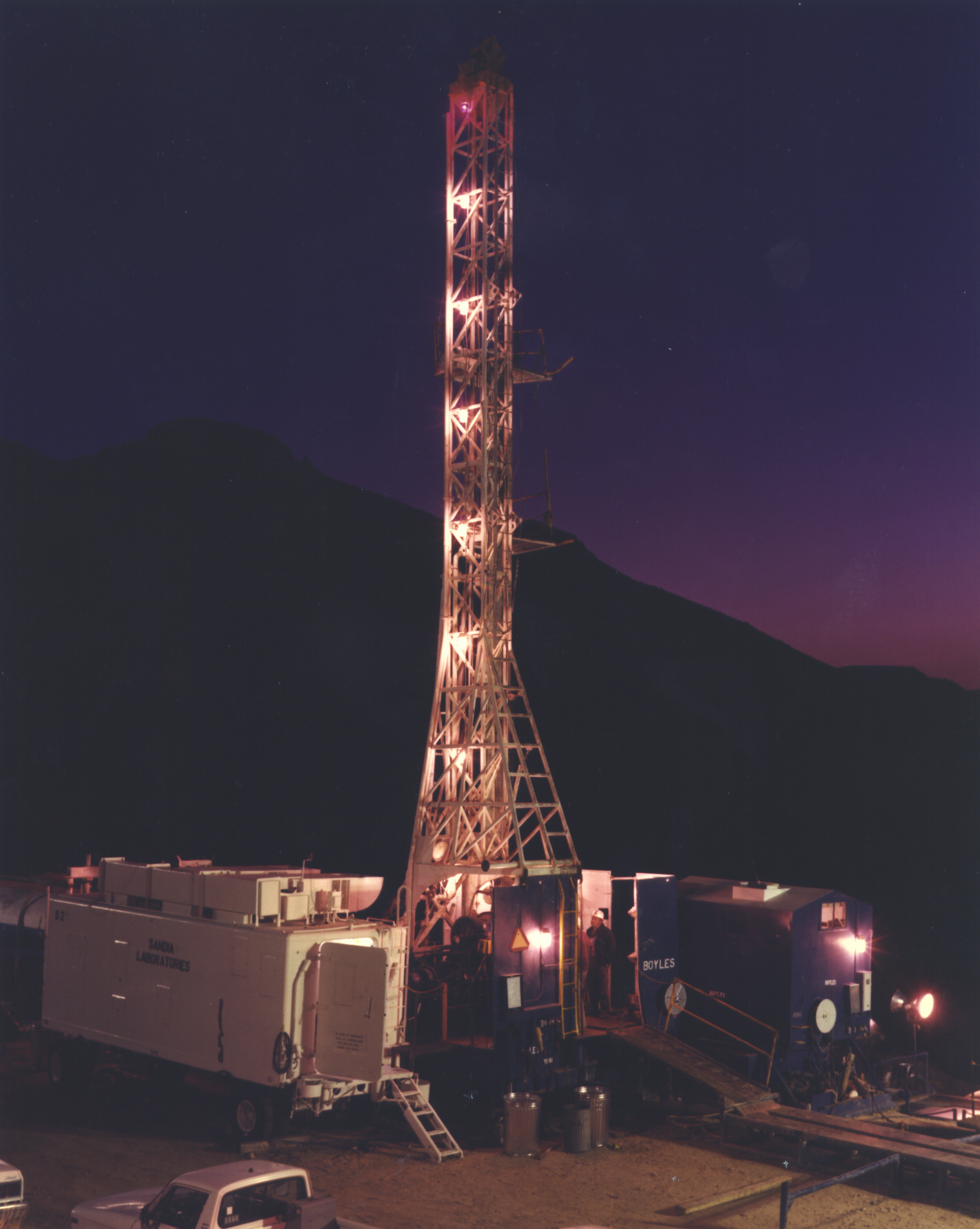 Drill rigs on Yucca Flat operate on a 24-hour basis preparing vertical shafts for underground nuclear test at the Nevada Test Site.